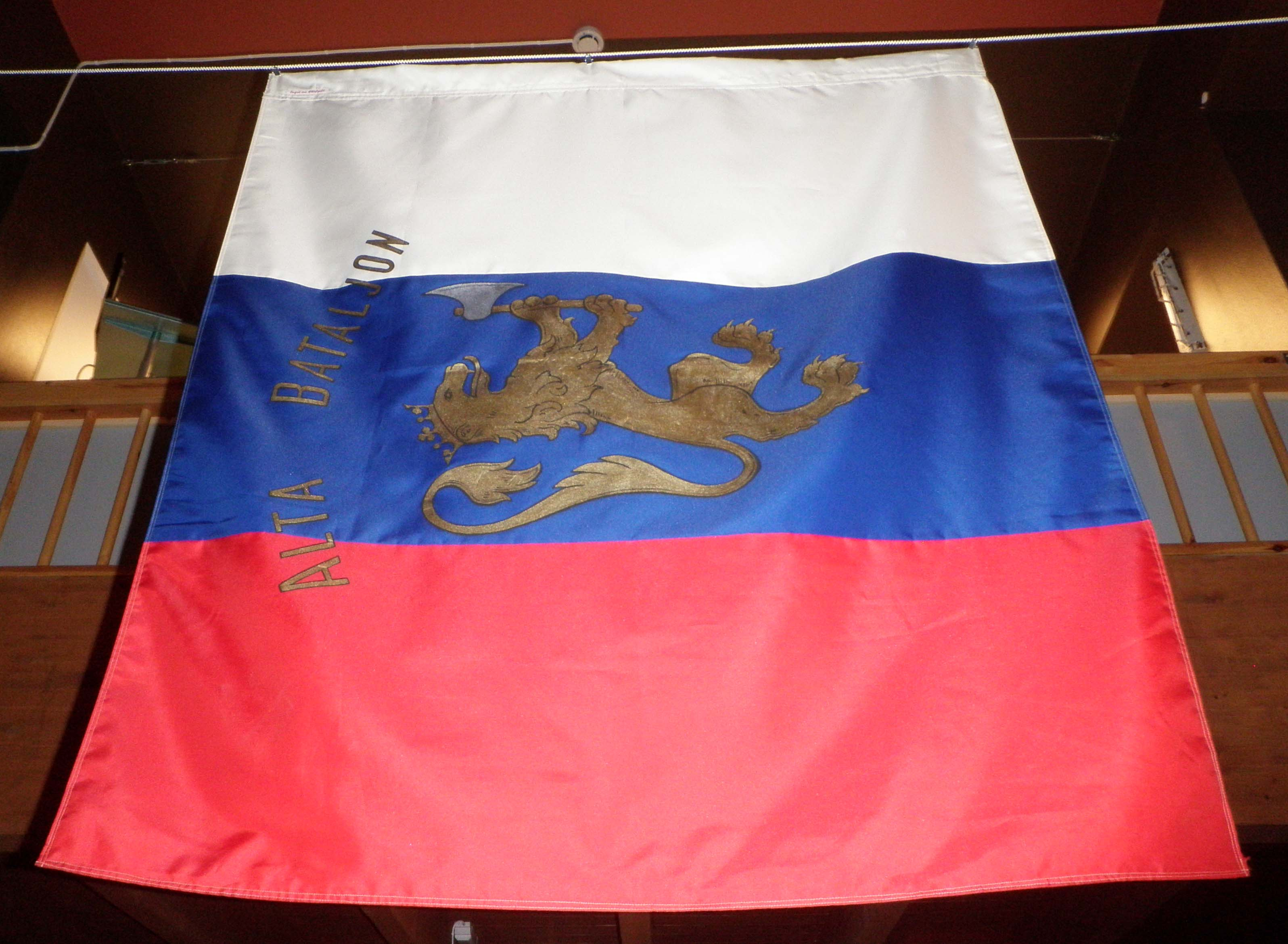 Pre-1940 style colours for the Norwegian independent infantry unit Alta Battalion, hanging on display at the War Museum in Narvik. After the 1940 Norwegian Campaign several battle honours were emblazoned on the colours.